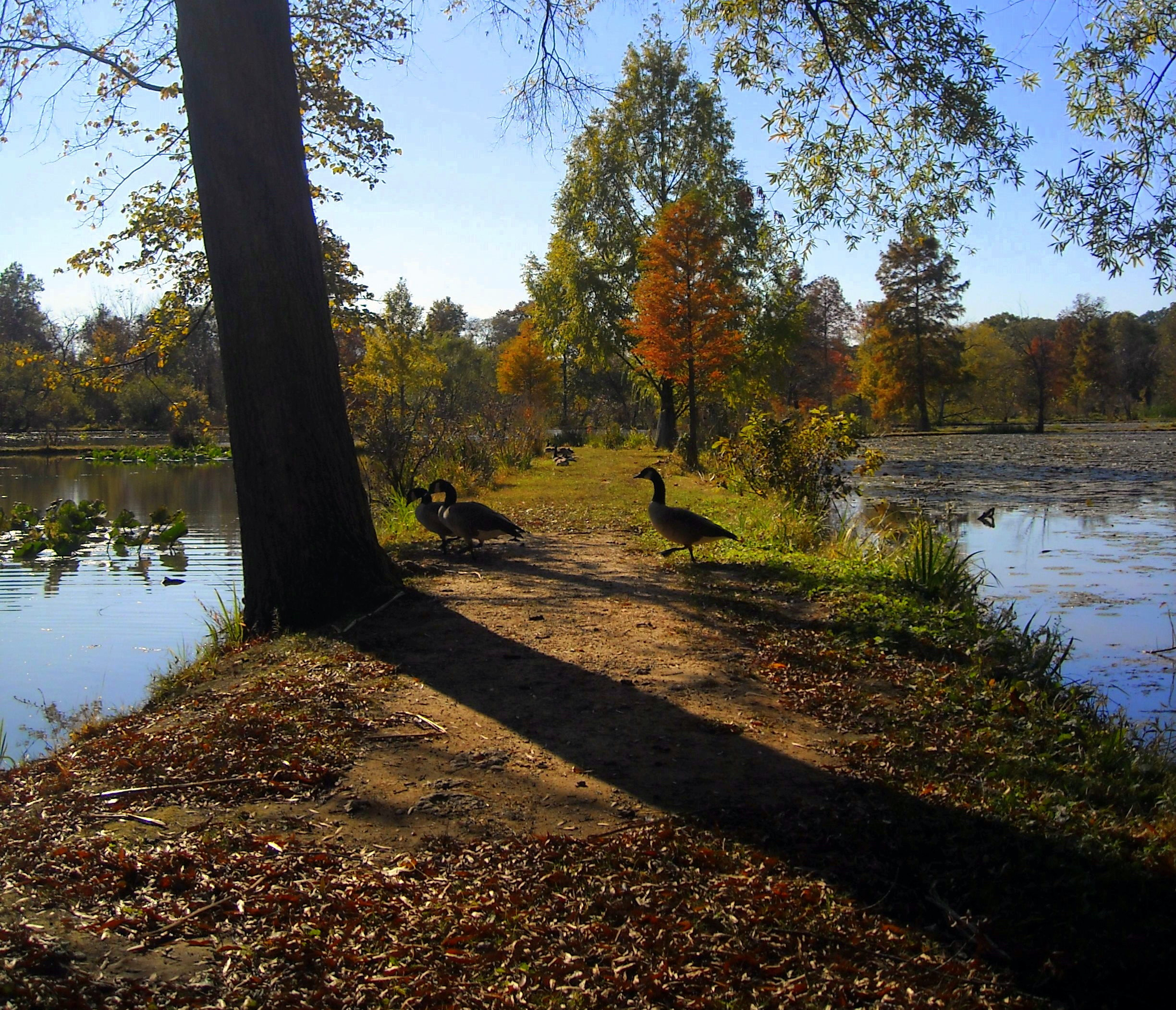 Geese at the Kenilworth Park and Aquatic Gardens in Washington The park is listed on the National Register of Historic Places.